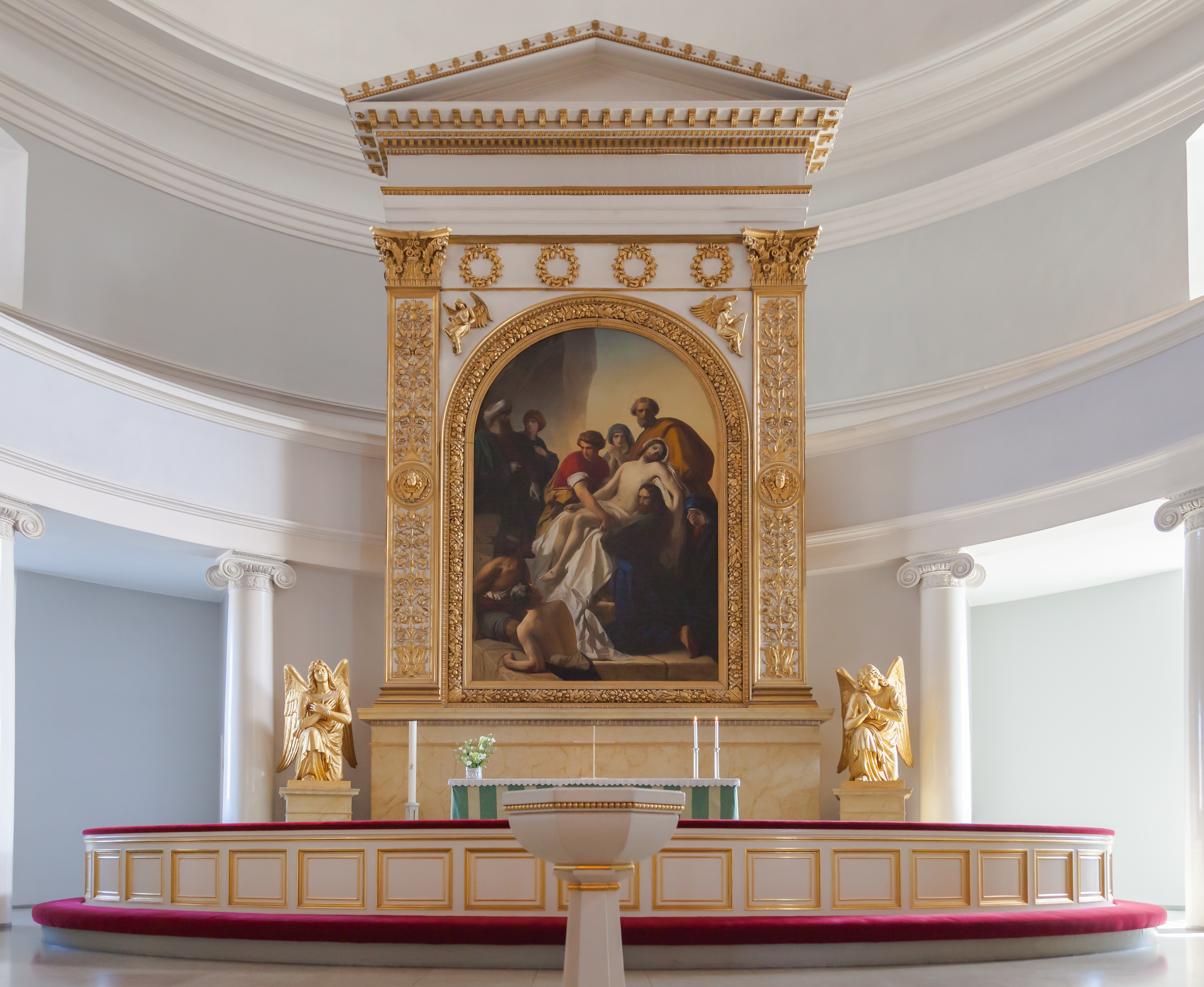 Helsinki Lutheran Cathedral, Finnland